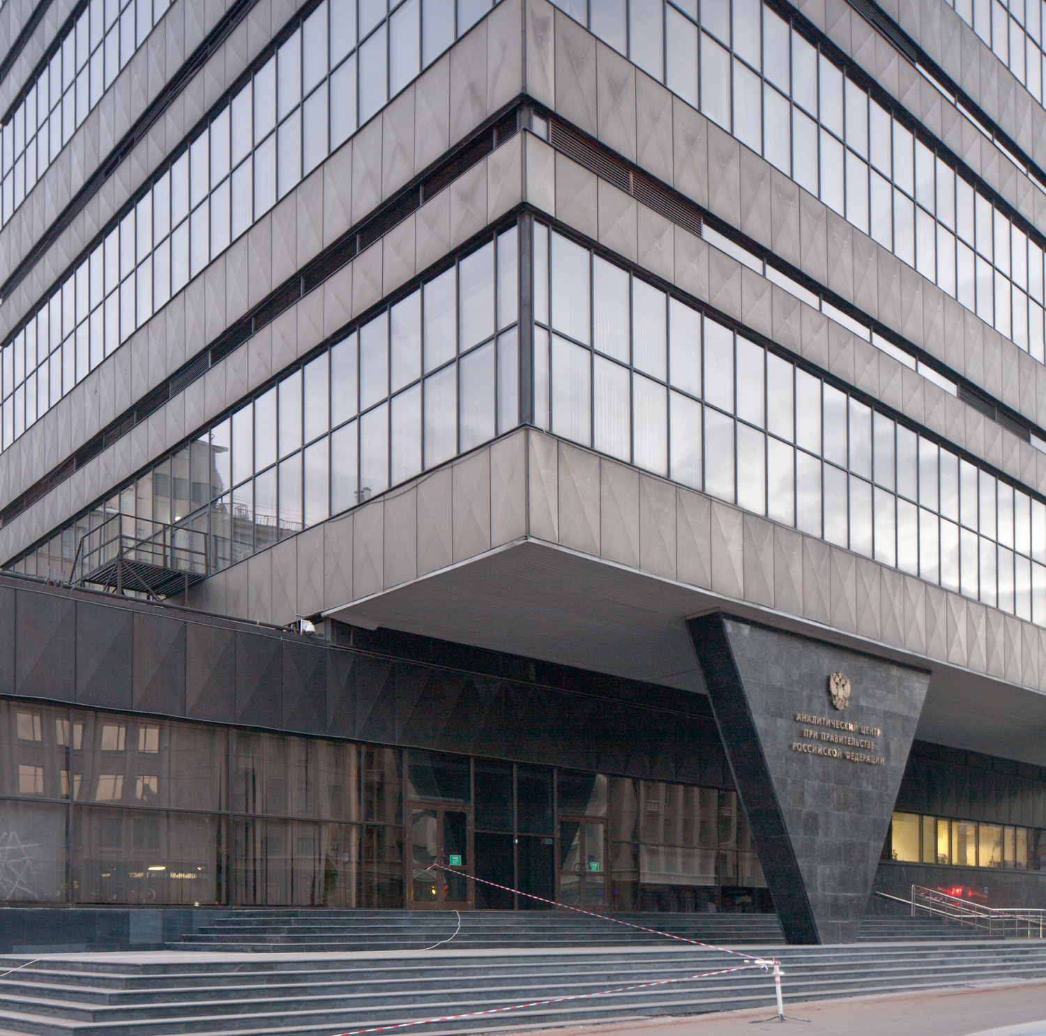 Главный вычислительный центр Госплана СССР